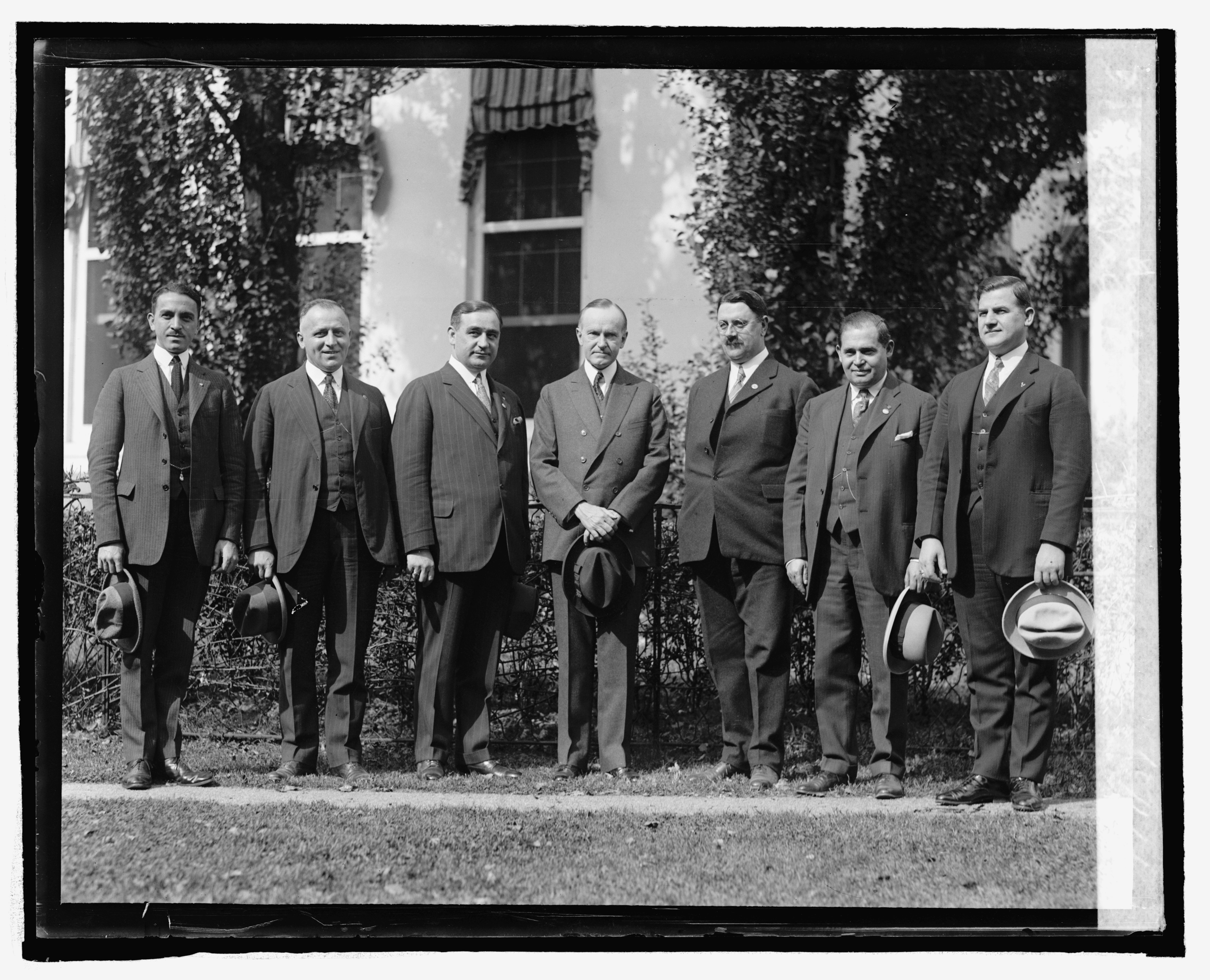 Title: Pres. Coolidge with Greek-Americans, 10/16/24 Abstract/medium: National Photo Company Collection (Library of Congress) Physical description: 1 negative